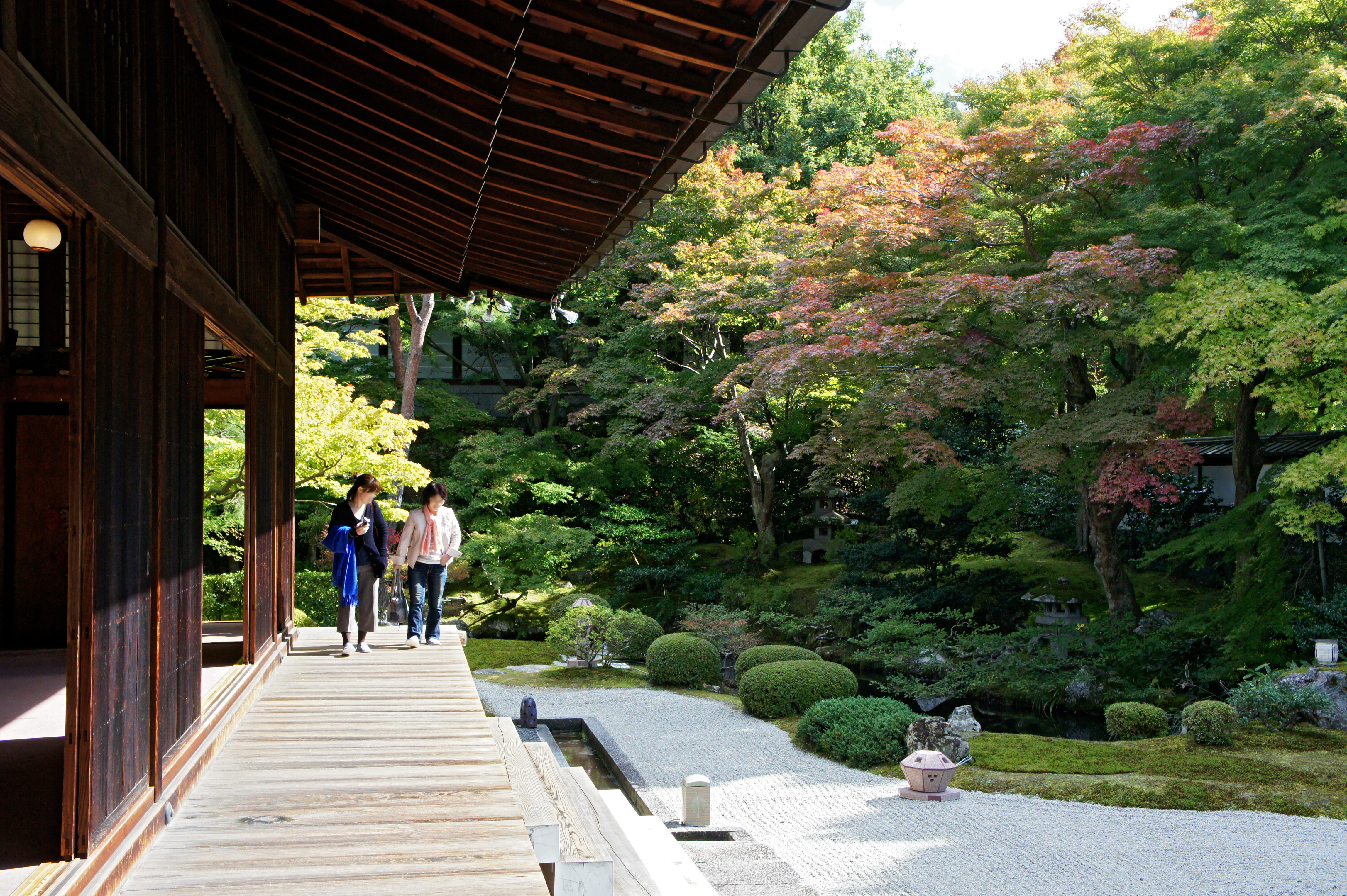 Sennyu-ji in Higashiyama-ku, Kyoto, Kyoto prefecture, Japan